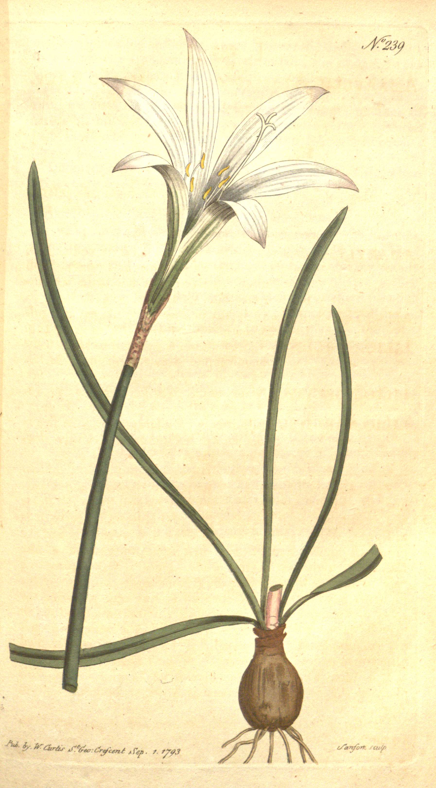 This is a plate from The Botanical Magazine, Volume 7.